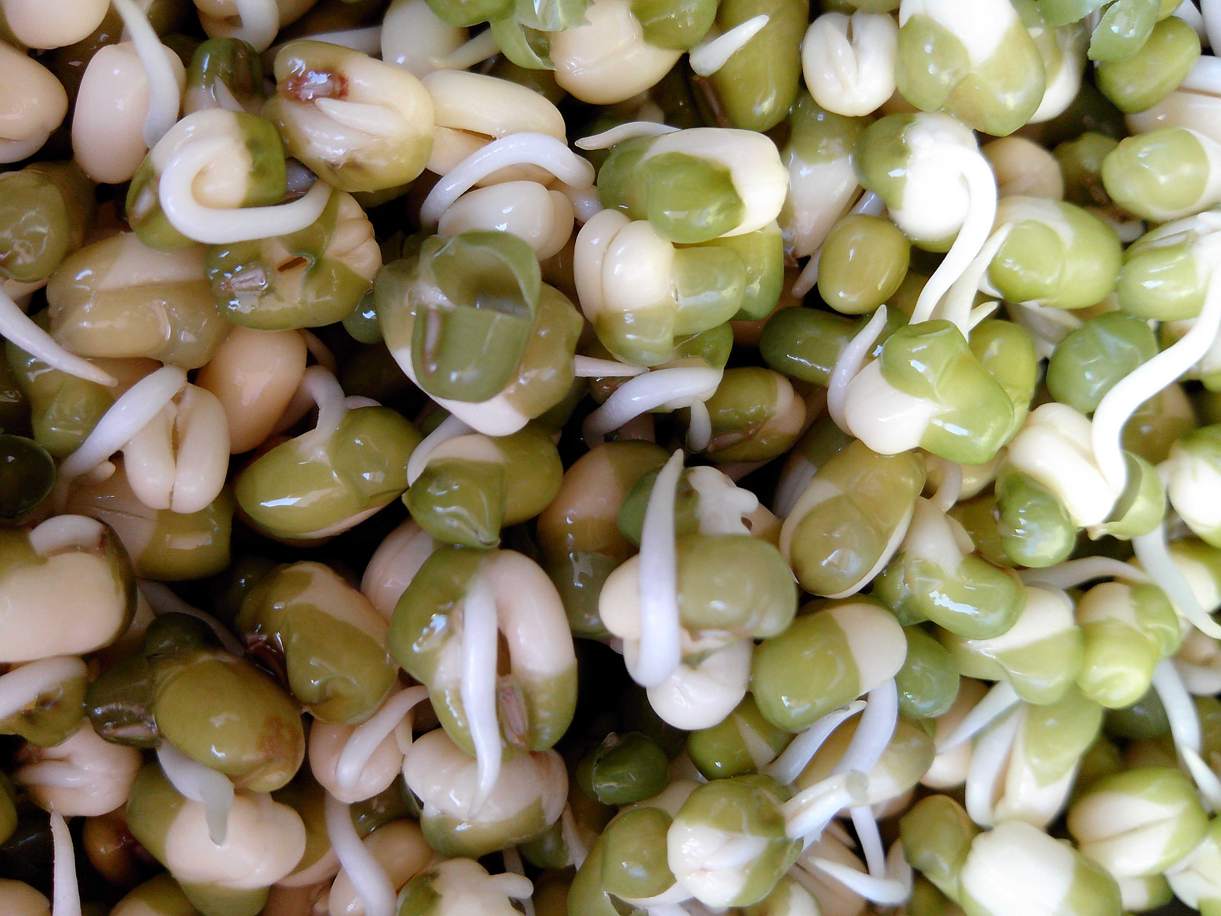 Green gram sprout of Salem, Tamilnadu, India.